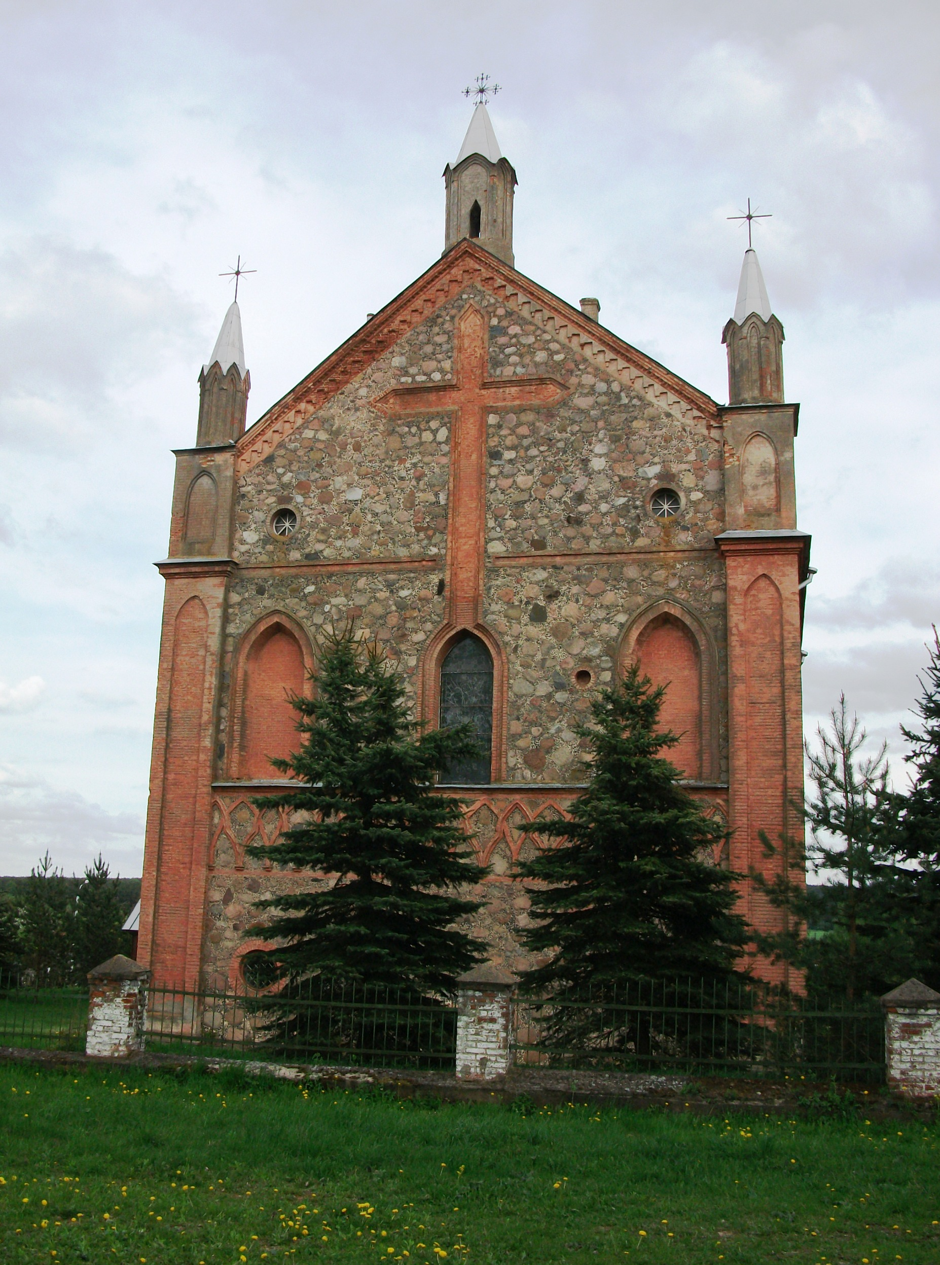 Church of the Holy Apostles Peter and Paul in Zhuprany village, Belarus